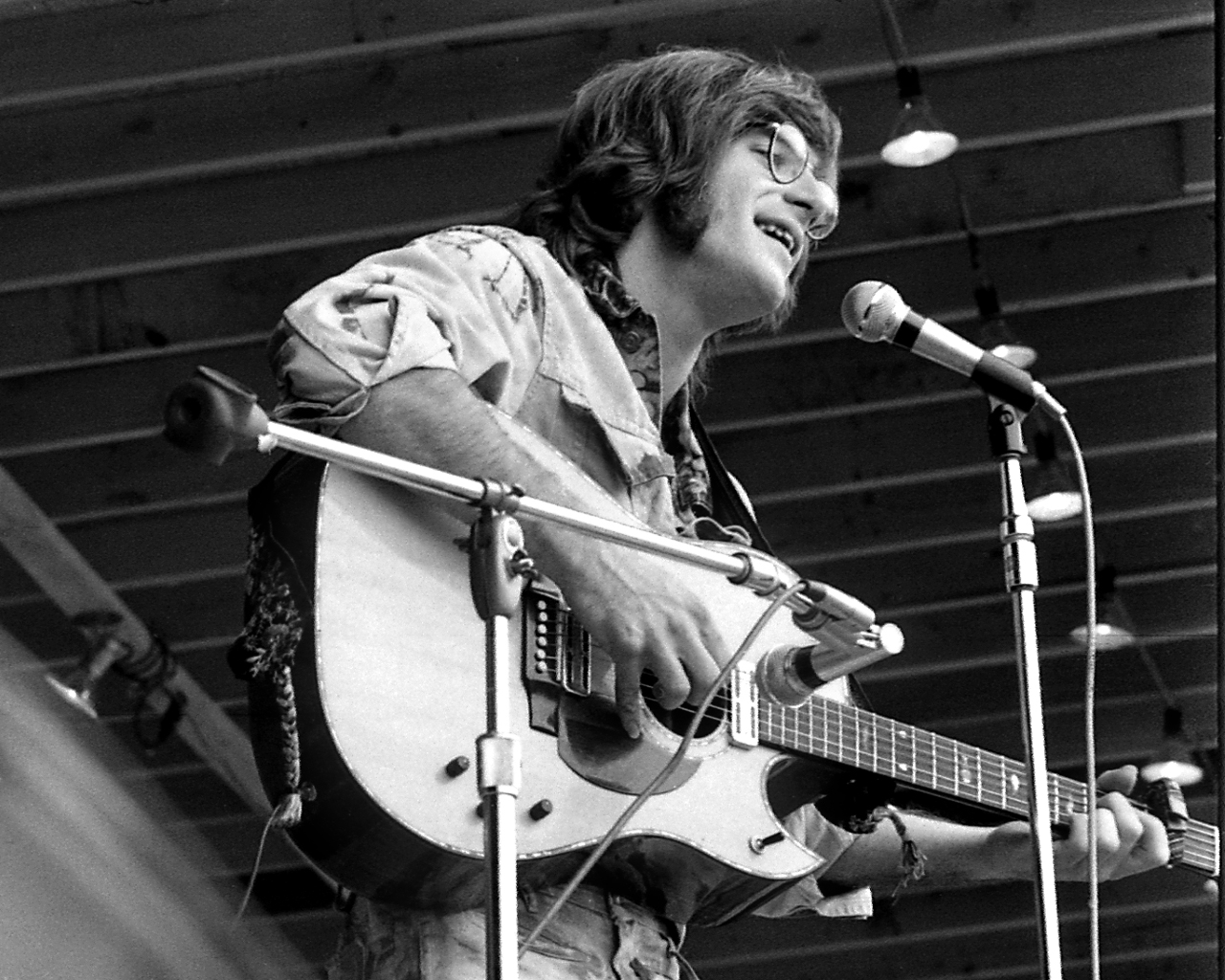 John Sebastian performing in concert in East Lansing, Michigan, May 24,1970